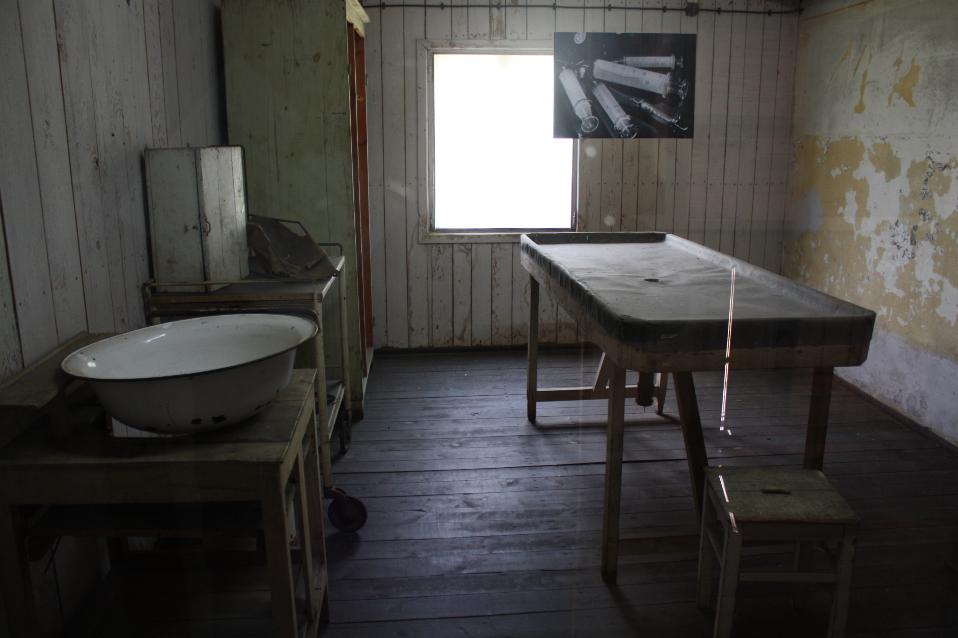 Sztutowo, KZ Stutthof